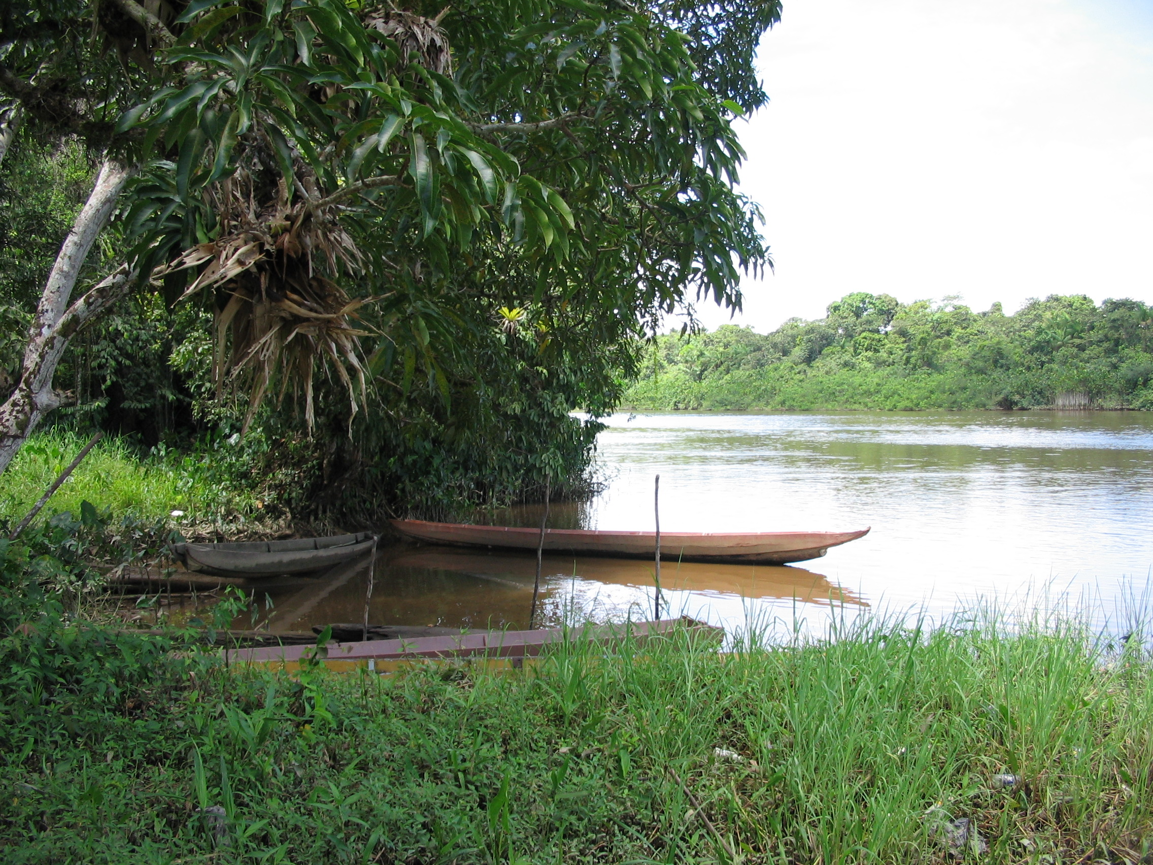 The Marowine river on the Suriname side, on the other side is French Guiana.